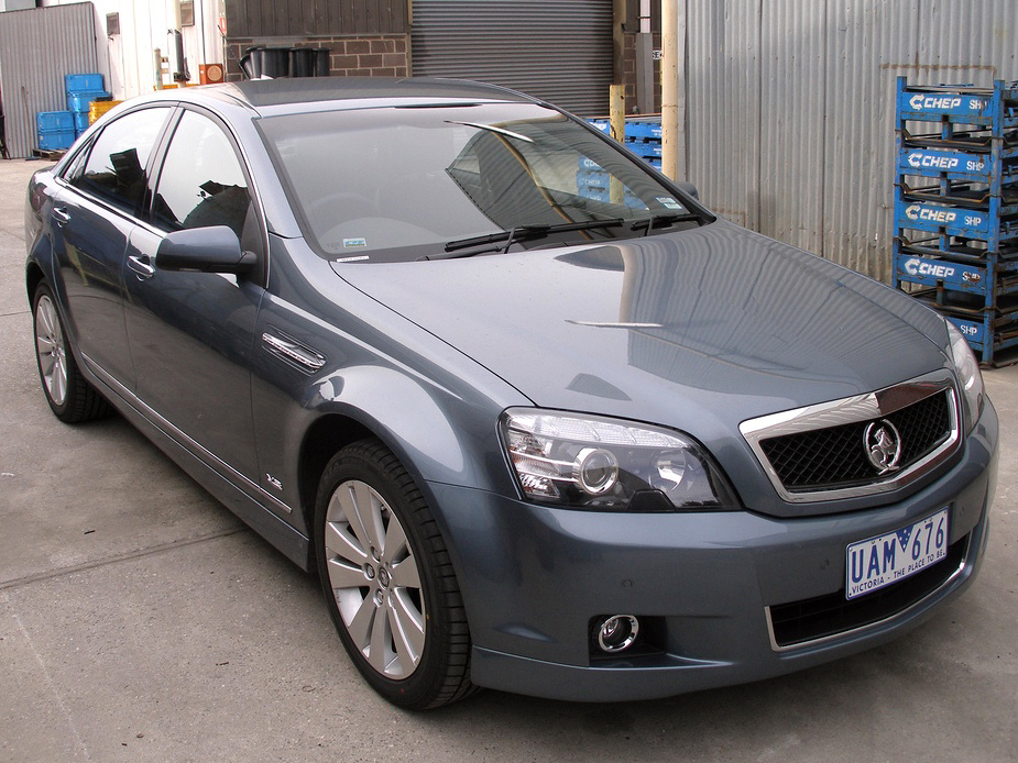 2006 Holden Caprice (WM) sedan.